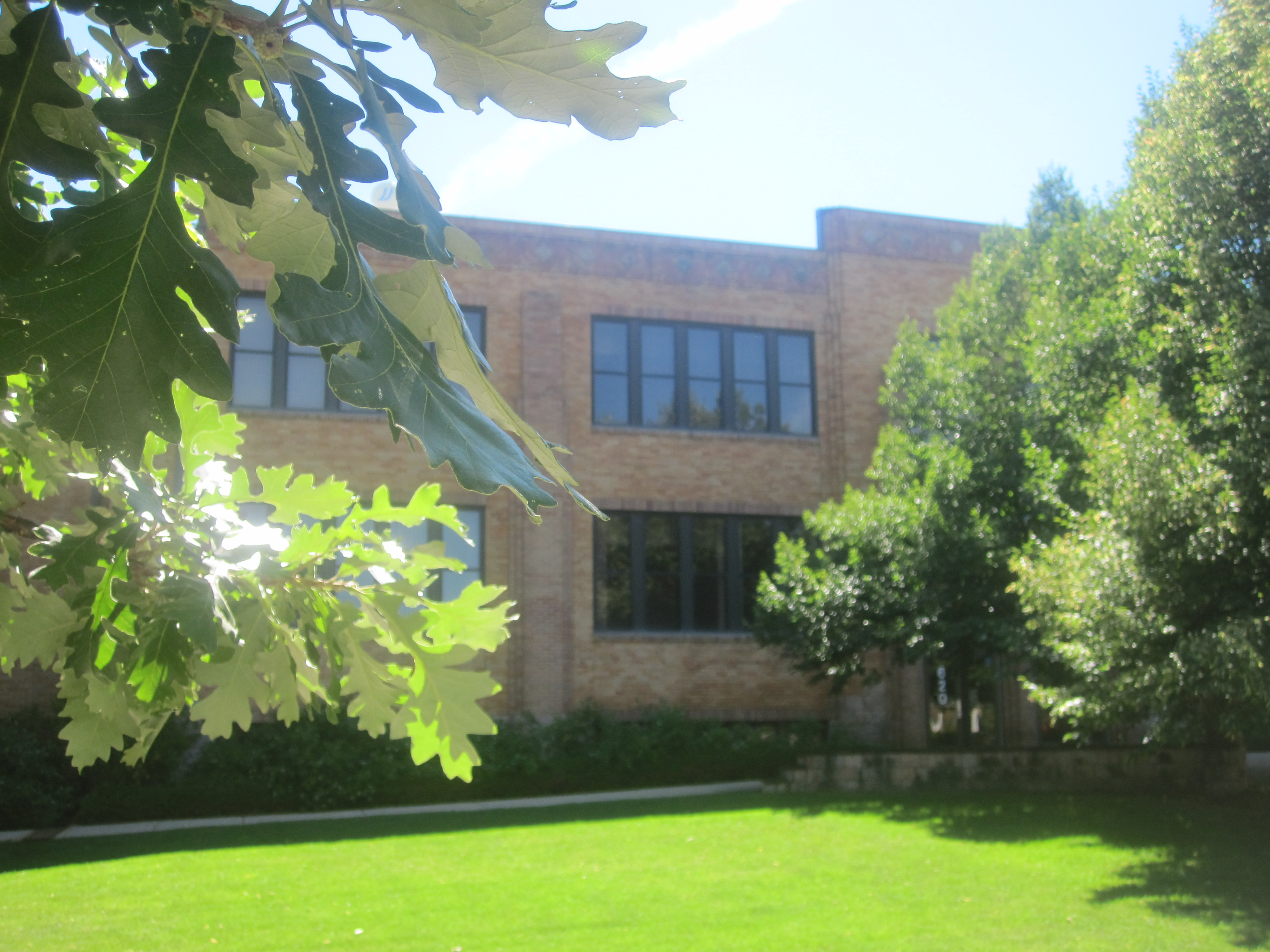 I took photo with Canon camera in Castle Rock, CO.